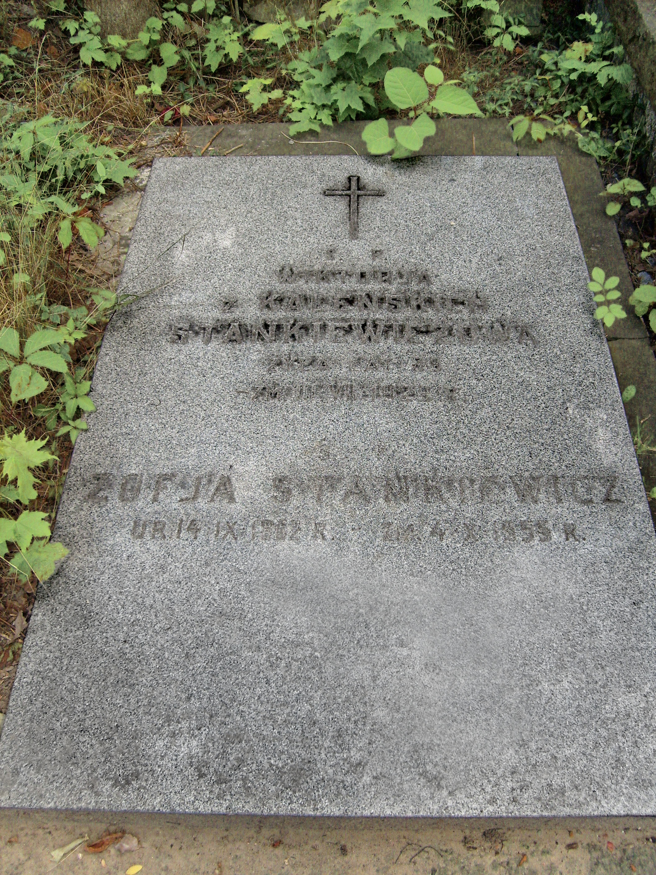 The grave of Zofia Stankiewicz